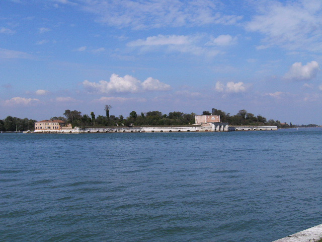 Little venetian island hosting a 1500s fortress; picture from San Nicolò al Lido. The island is Vignole, the Fortress is San Andrea